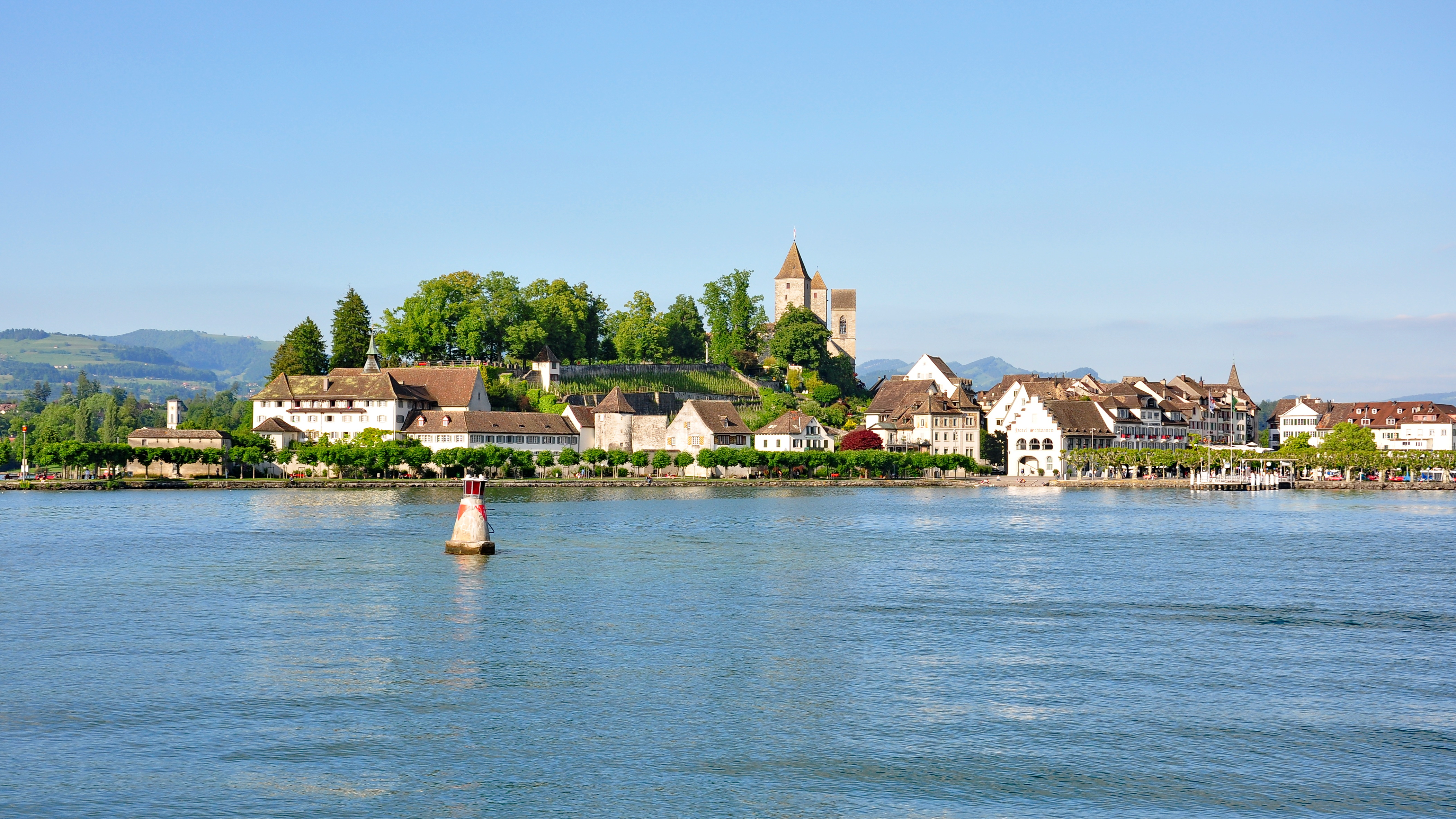 Rapperswil (SG): Schloss Rapperswil hill, Capuchin monastery and Altstadt as seen from Zürichsee (Lake Zürich).